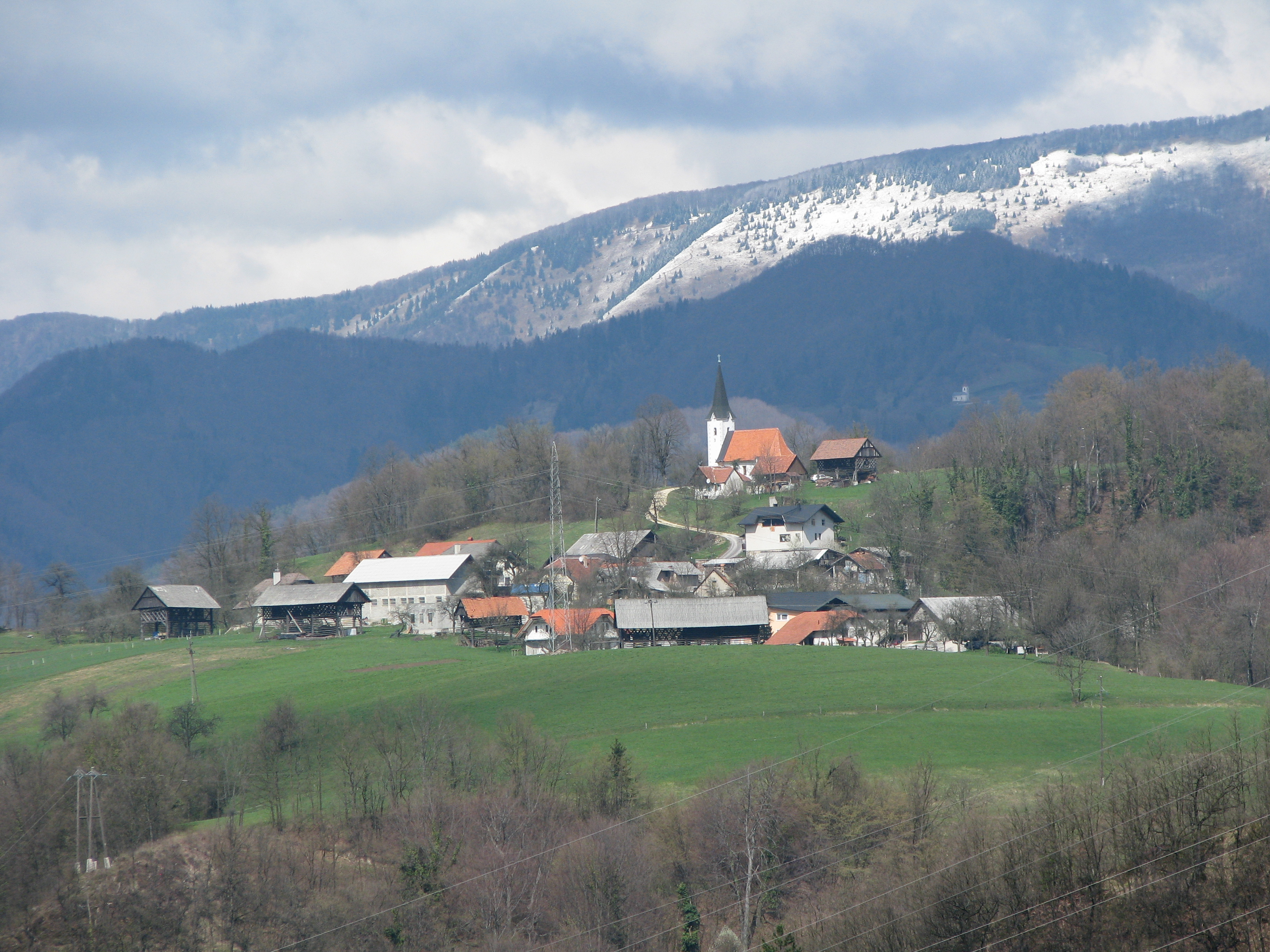 Retje, then hamlet of Trbovlje, below the Church of Saint Cross, Slovenia